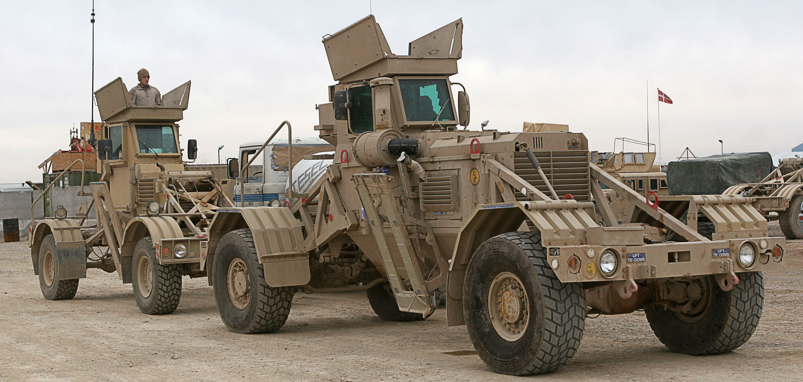 The Husky tactical support vehicle is an important tool in defeating improvised explosive devices used by insurgents against alliance forces in the Islamic Republic of Afghanistan. The Huskies were successful in finding numerous IEDs during Operation Gateway III, a strategically planned operation in which Marines of 3rd Battalion, 8th Marine Regiment (Reinforced) cleared southern Afghanistan's Route 515. The route was notorious for IEDs; however, with the help of the Huskies, Marines defeated the IEDs and provided safer travel for local Afghans and alliance forces.